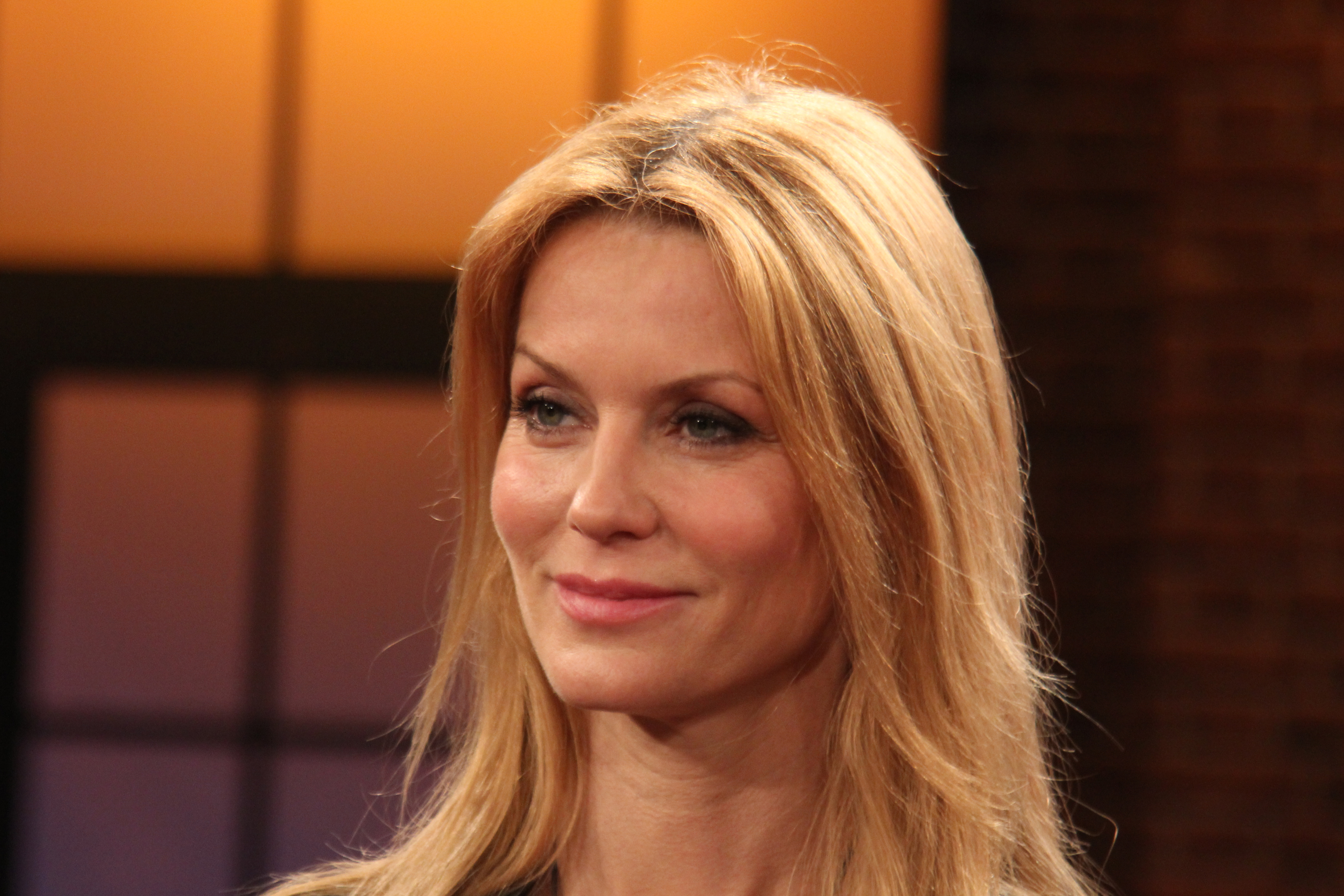 german actress, comedian and tv-presenter and singer Esther Schweins